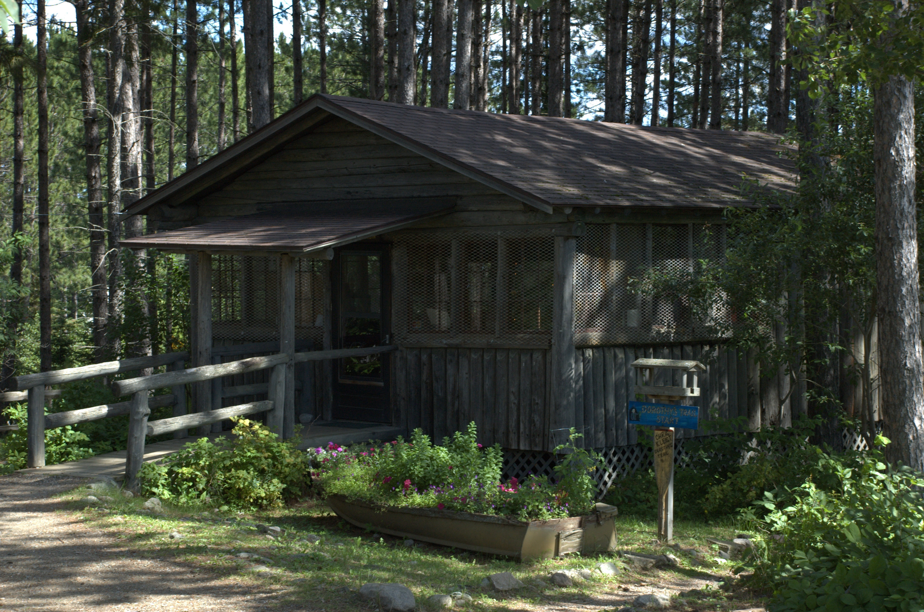 Dorothy Molter's Winter Cabin at the Dorothy Molter Museum, 2002 E Sheridan St, Ely, Minnesota, USA.